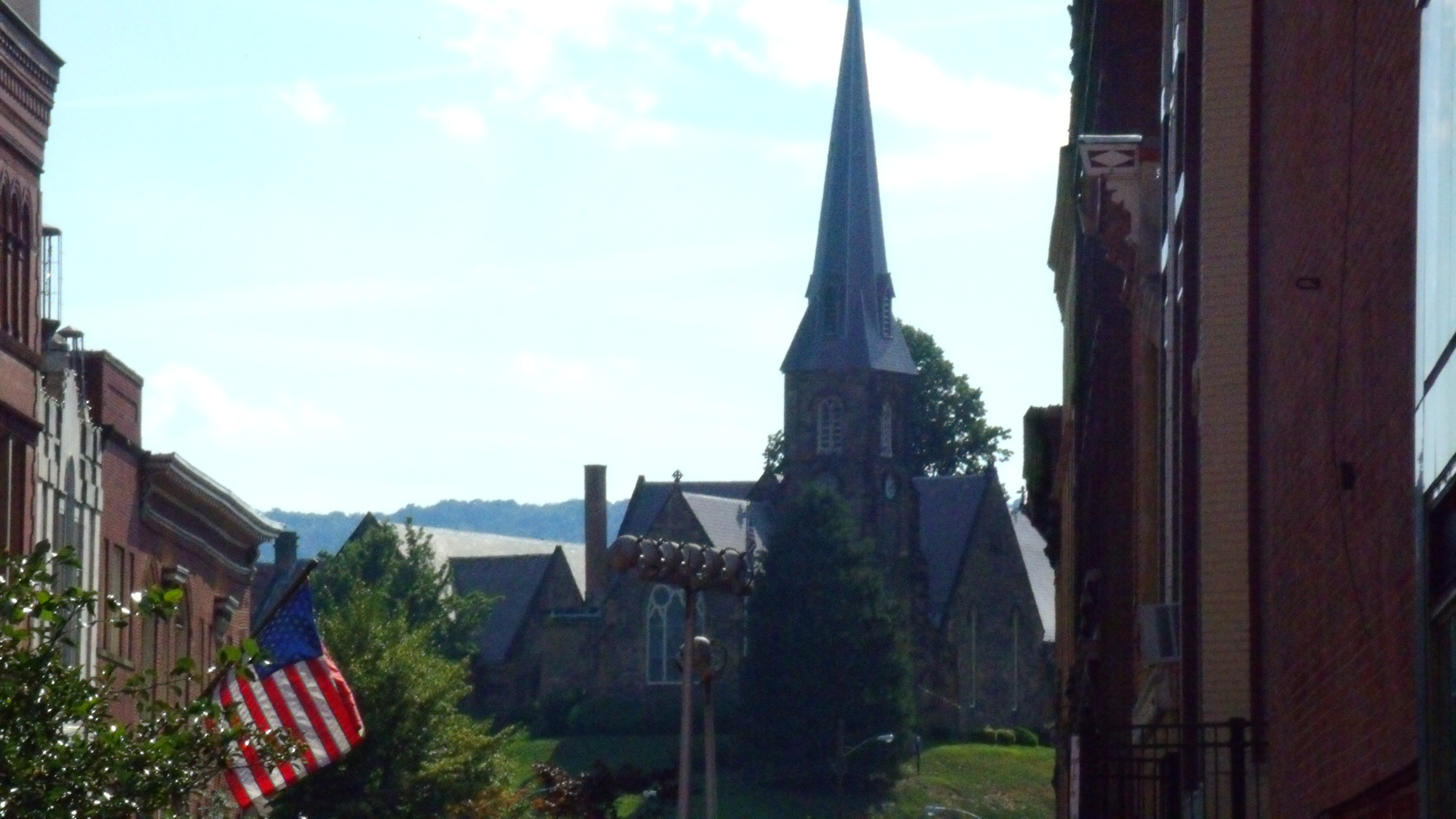 Downtown Cumberland looking toward Emmanuel Episcopal Church